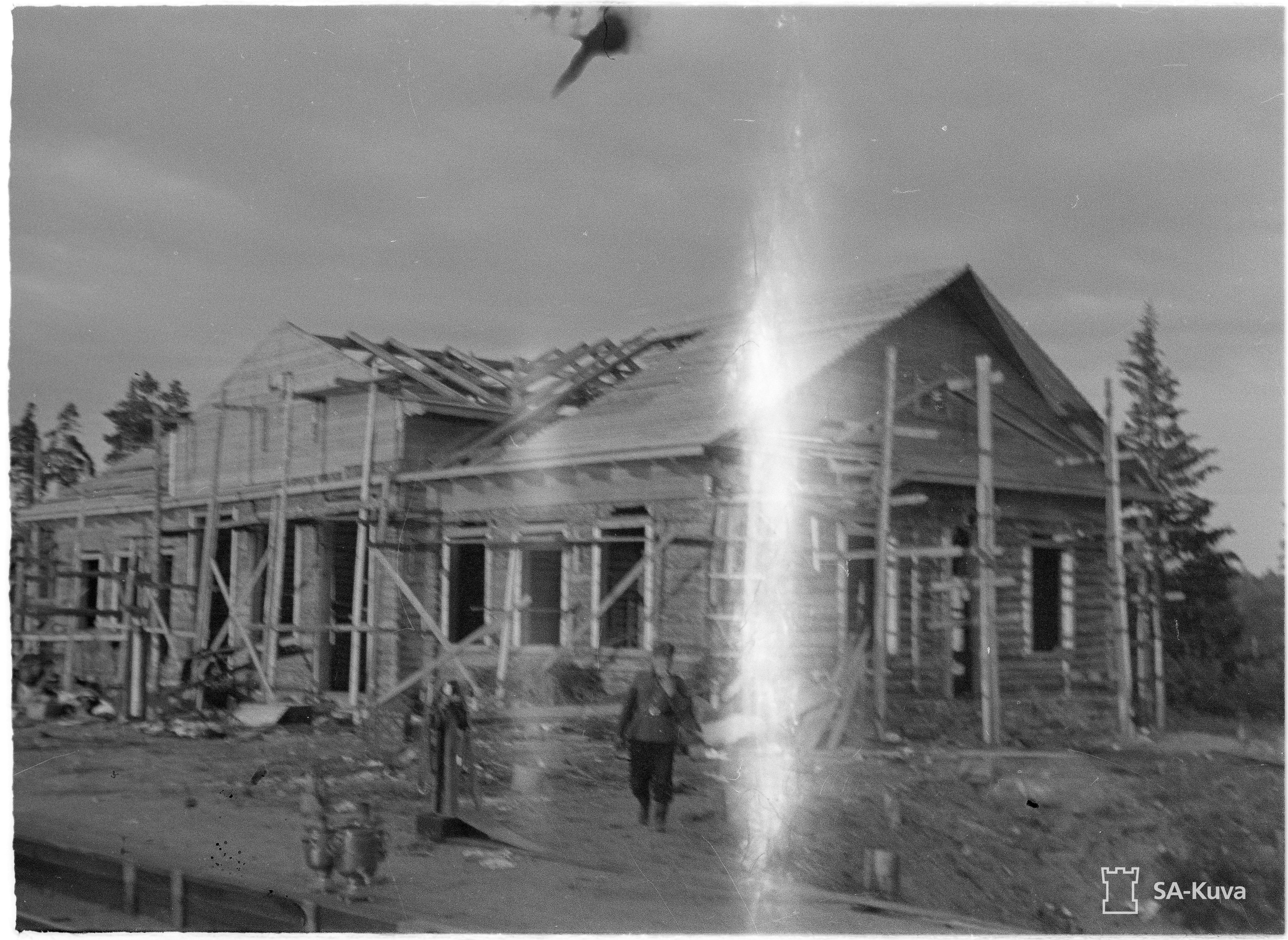 Talvisodassa tuhoutuneen Kaislahden aseman paikalle ovat bolsheviikit aloittaneet rakentamaan uutta, joka on kuitenkin jnyt kesken.